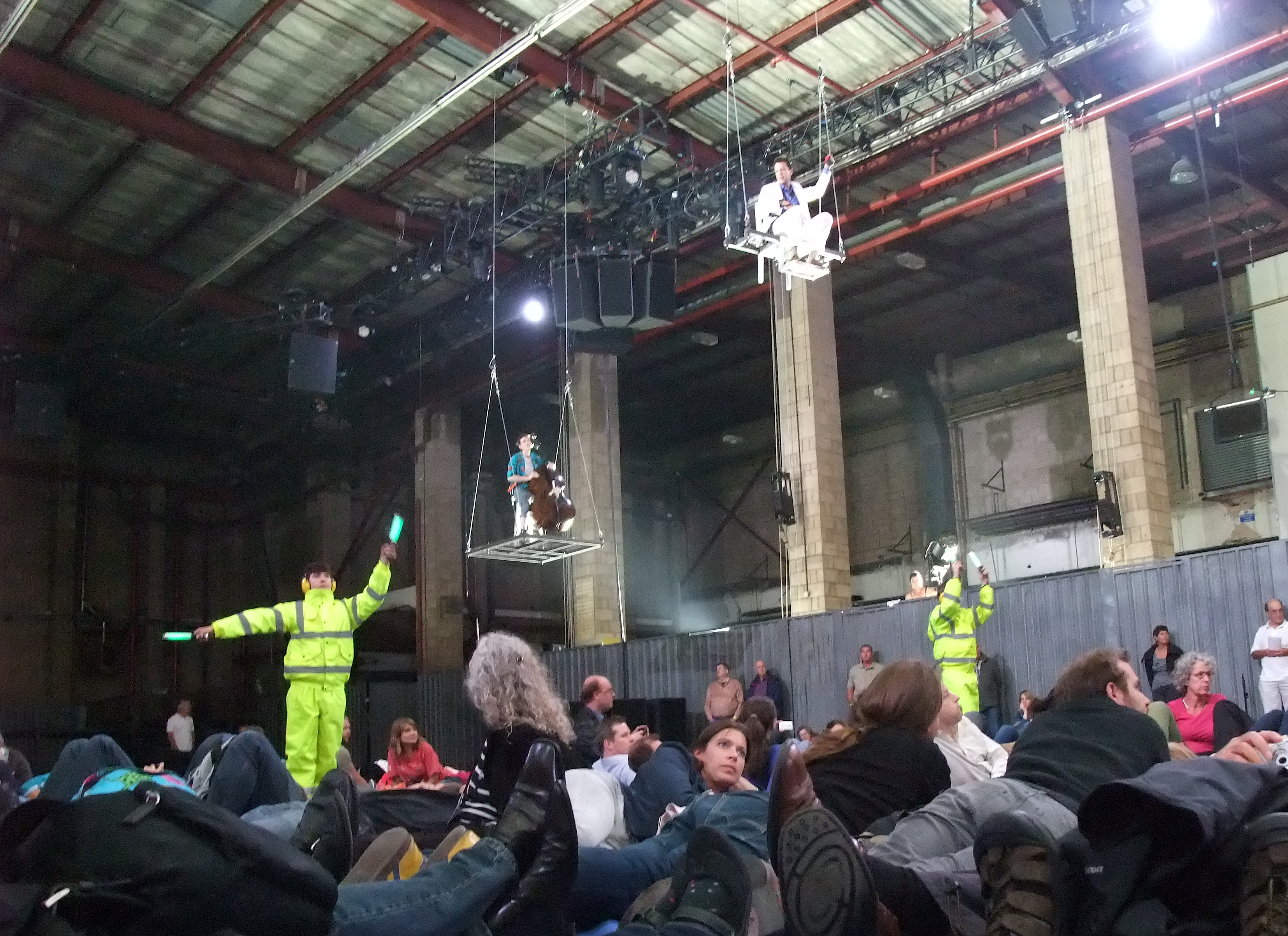 Karlheinz Stockhausen: Mittwoch aus Licht, scene 2: Orchester-Finalisten. Orchestra Finalists are floating high up in the air, each in his/her own space—during the cello solo this is over an airport at the sea, as the oboist (Dan Bates) and double-bassist (Jeremy Watt) look on. Birmingham Opera production, Argyle Works, Digbeth, Birmingham. Dress rehearsal, Tuesday, 21 August 2012.